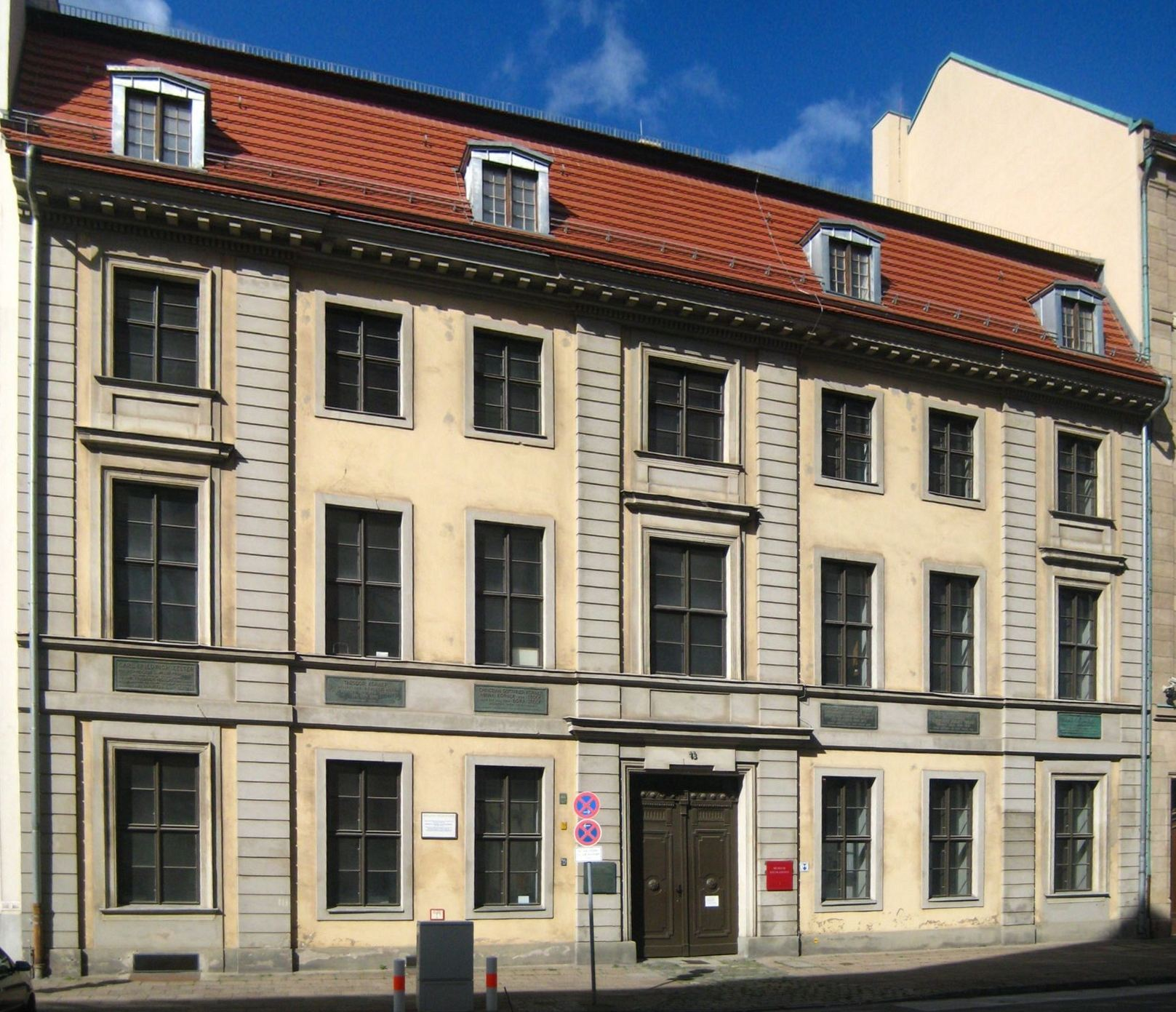 The Nicolai House at Brüderstraße 13 on Spreeinsel in Berlin-Mitte, built around 1670 and altered several times since. It is now used by the Foundation City Museum Berlin. The building is landmarked.